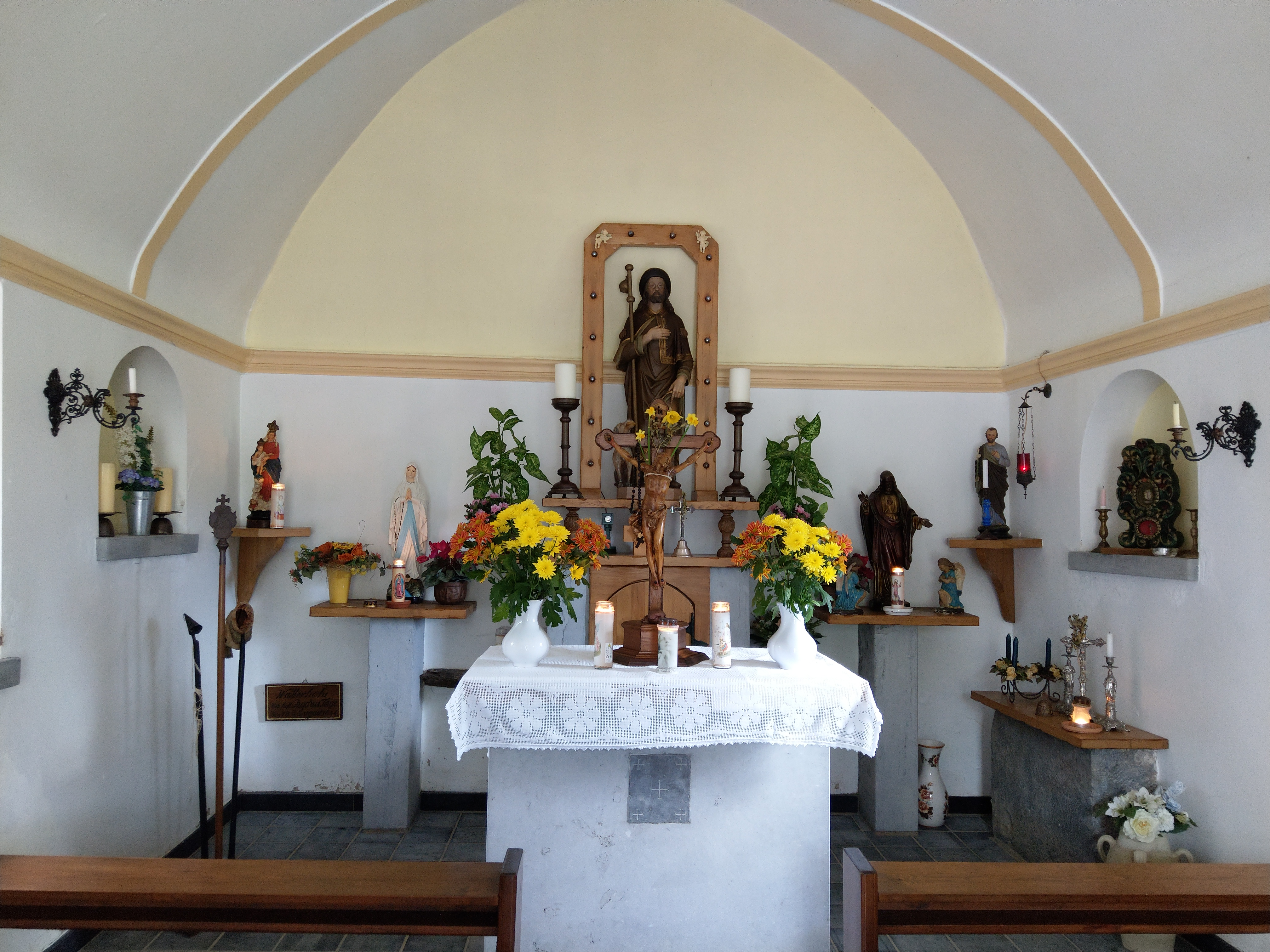 Description see Wikipedia